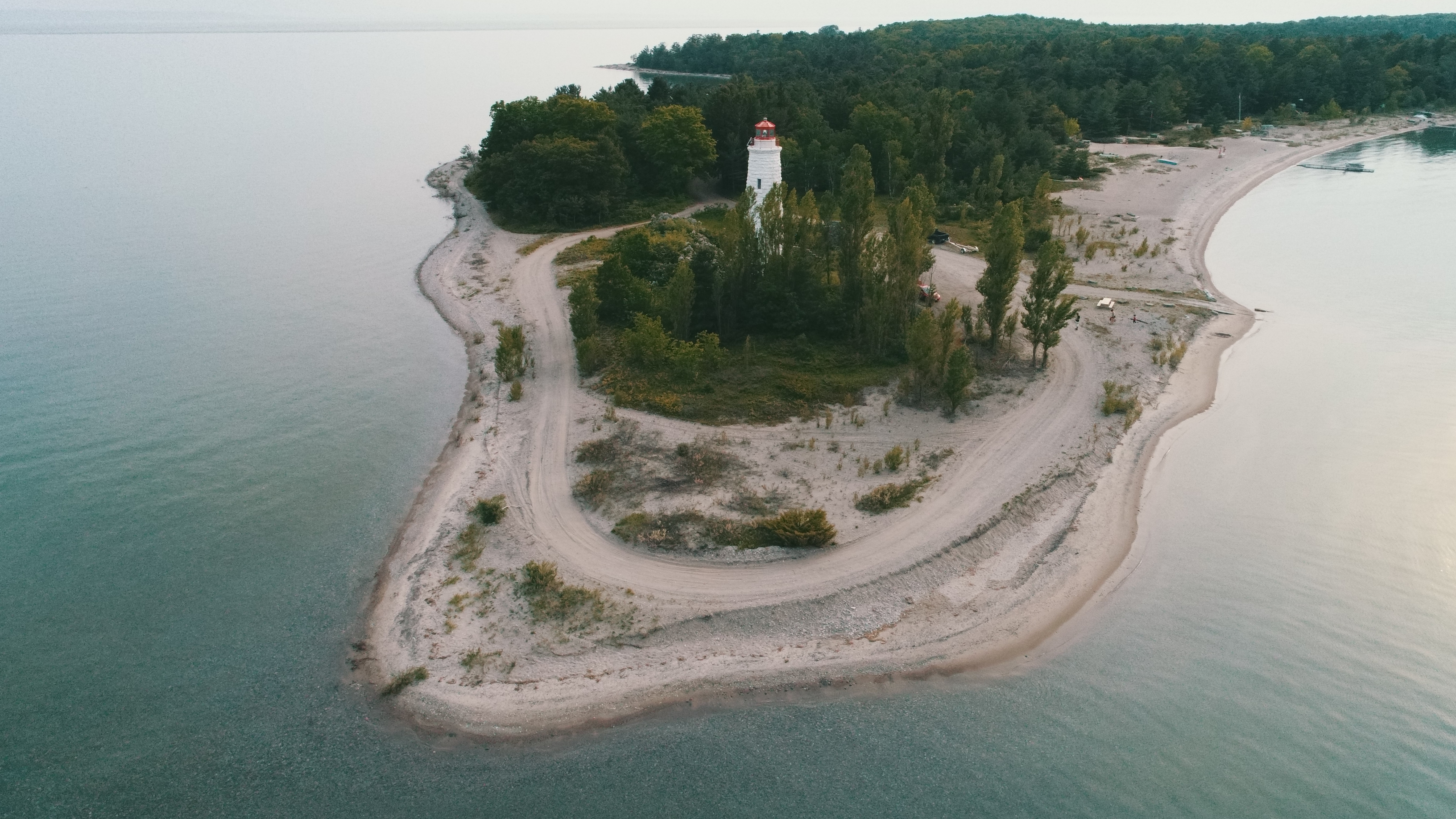 Lighthouse Point, featuring the oldest lighthouse (b. 1859) in Georgian Bay (Photo Credit: Alex Sandy)